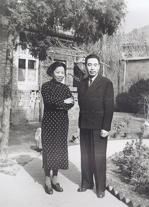 Zhou Enlai and Deng Yingchao at Nanjing, 1946